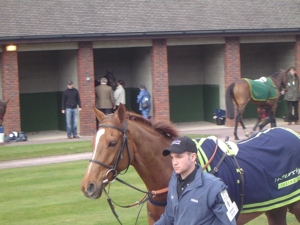 Thoroughbred Intersky Falcon at the Cheltenham Festival in March 2005.